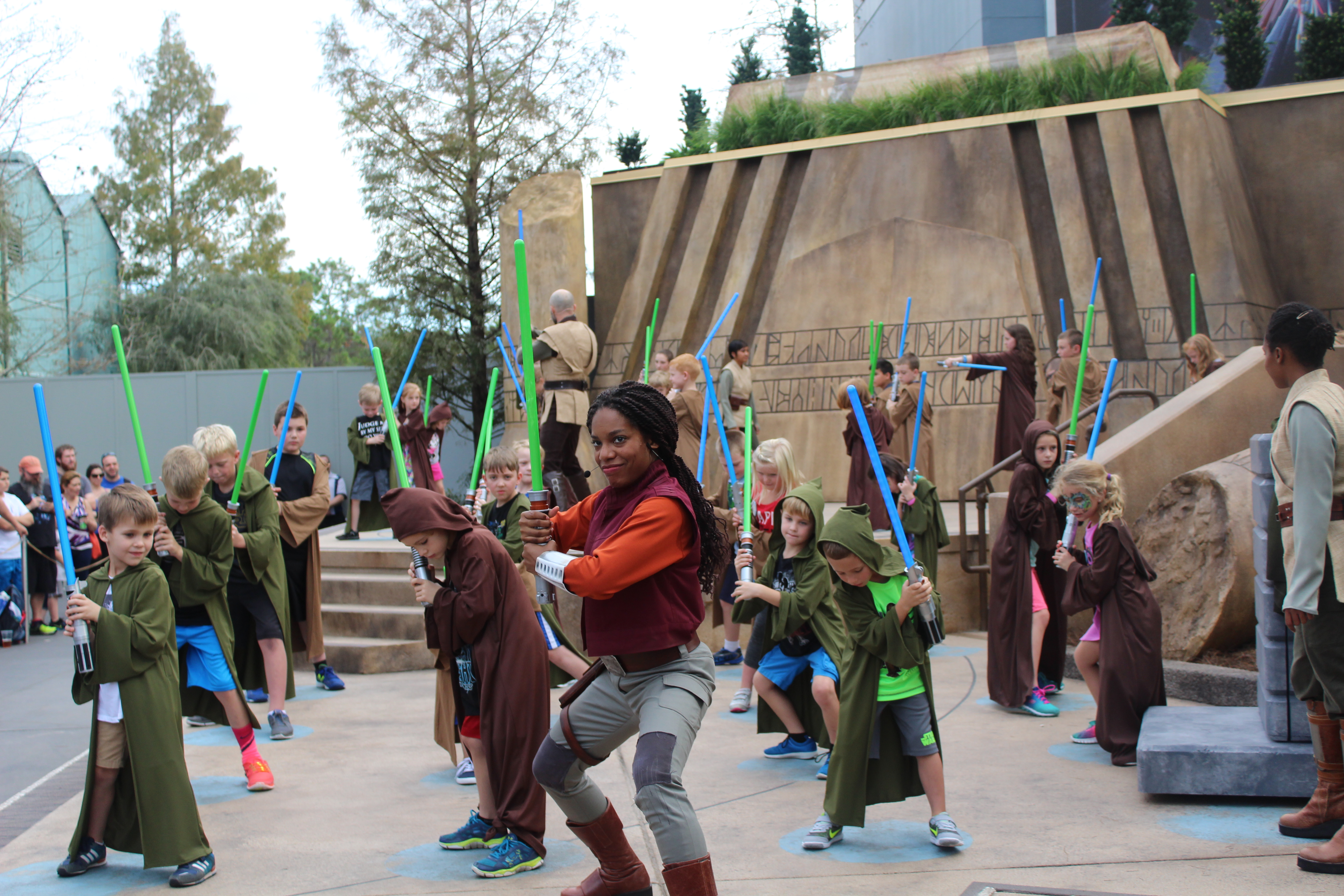 Jedi Training: Trials of the Temple